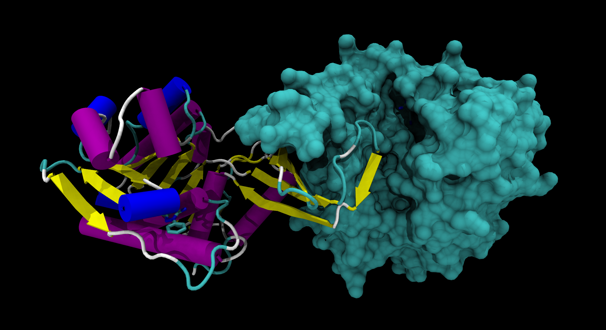 Ribbon/surface model of human ketohexokinase dimer with inhibitor-ligand as sticks, after PDB 3NBW. Ref.: A.C.Gibbs et al. (2010). Electron density guided fragment-based lead discovery of ketohexokinase inhibitors. In: J Med Chem, 53, 7979-7991. PMID 21033679. DOI 10.1021/jm100677s This 3D molecular image was created with VMD.